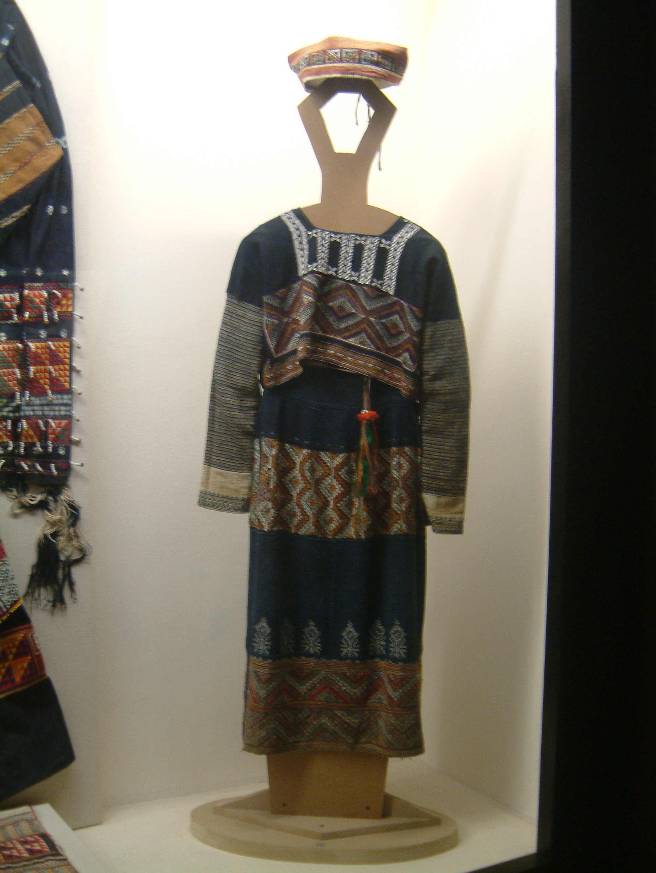 Traditional clothing of Phù Lá people (Vietnam Museum of Ethnology)